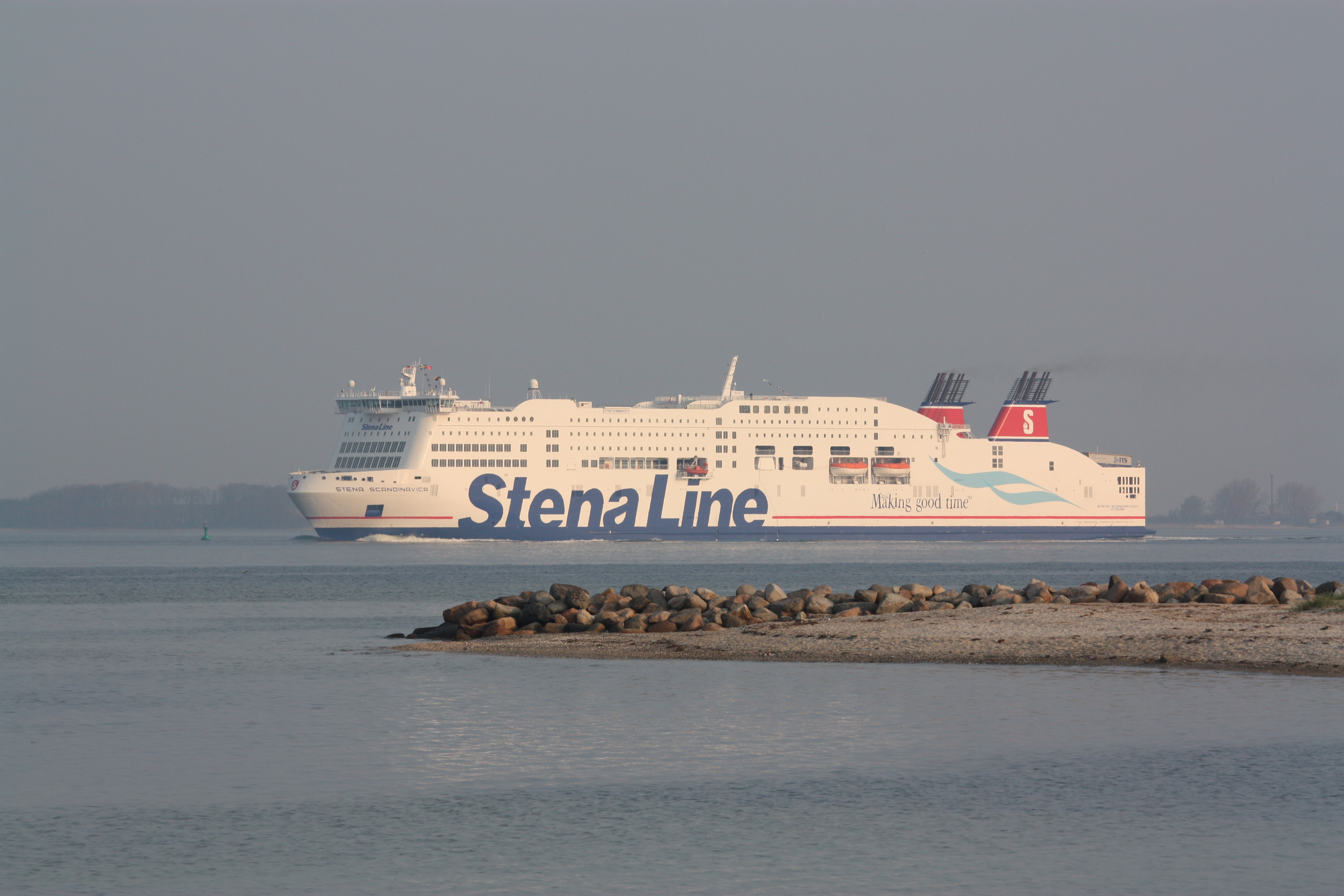 The Stena Scandinavica (2003) on her first voyage from Göteborg to Kiel Information about Stena Scandinavica may be found at IMO 9235517.A ship can change name and flag state through time, but the IMO number remains the same through the hull's entire lifetime. As a result, it can be useful to identify a ship by using the IMO number.